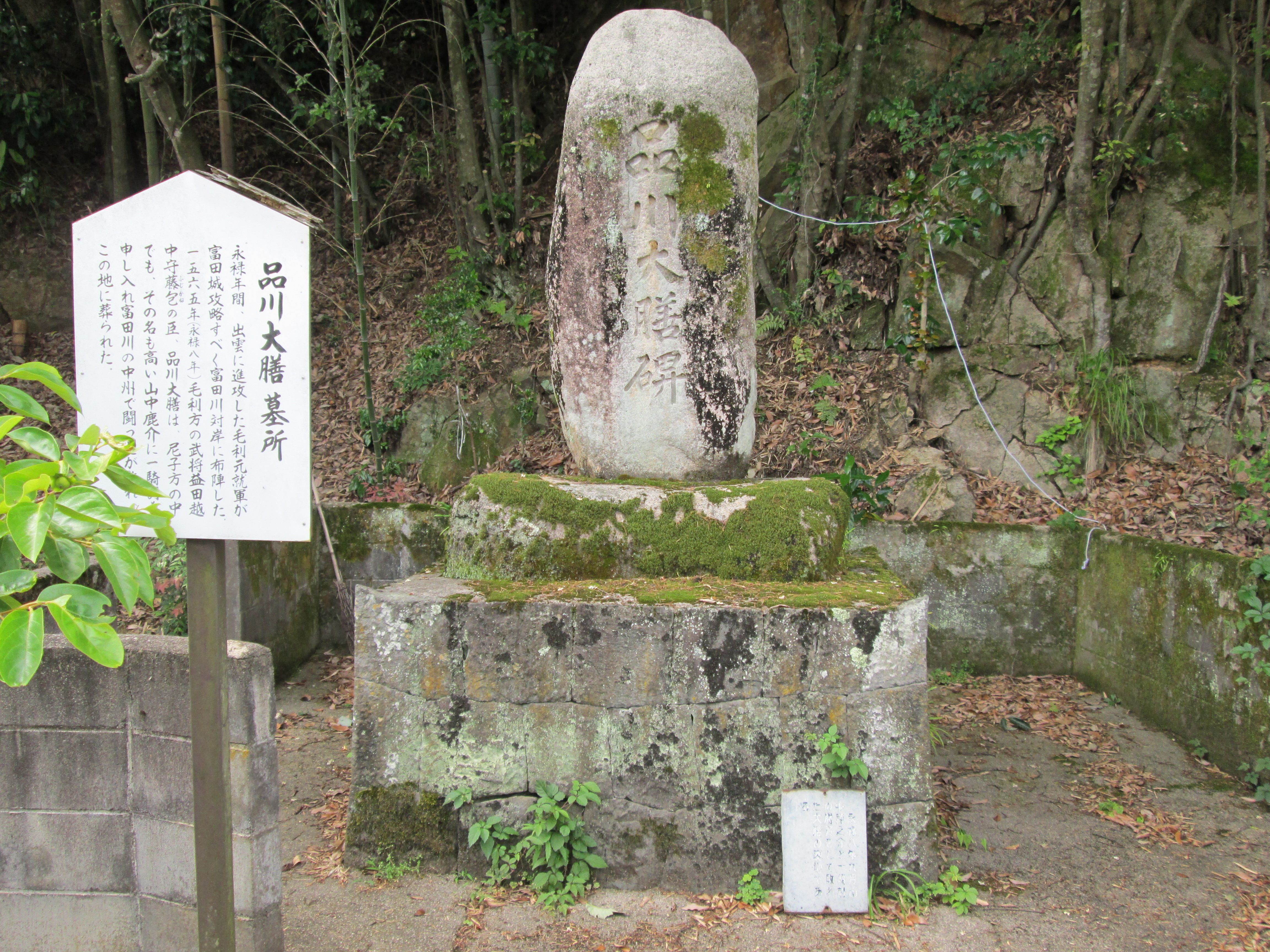 Tomb of Shinagawa Masakazu in Hirosecho, Yasugi, Shimane, Japan